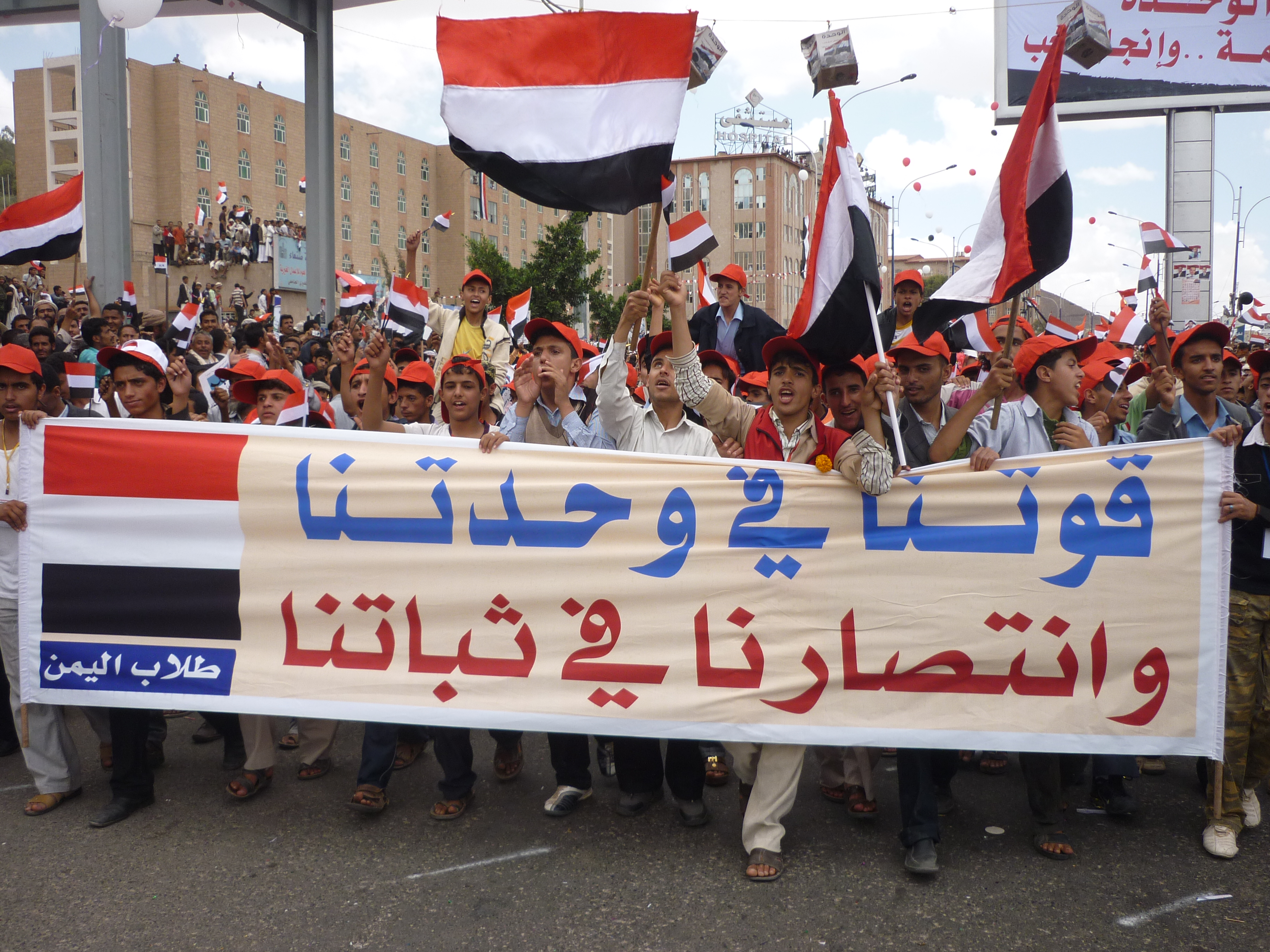 yemeni students in sanaa in Unit feast 22 may 2012